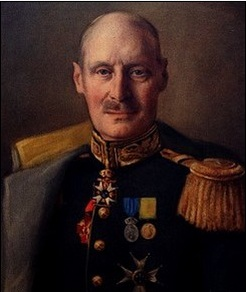 Painting of Tell Schmidt as regimental commander of Gotland Infantry Regiment (I 27).